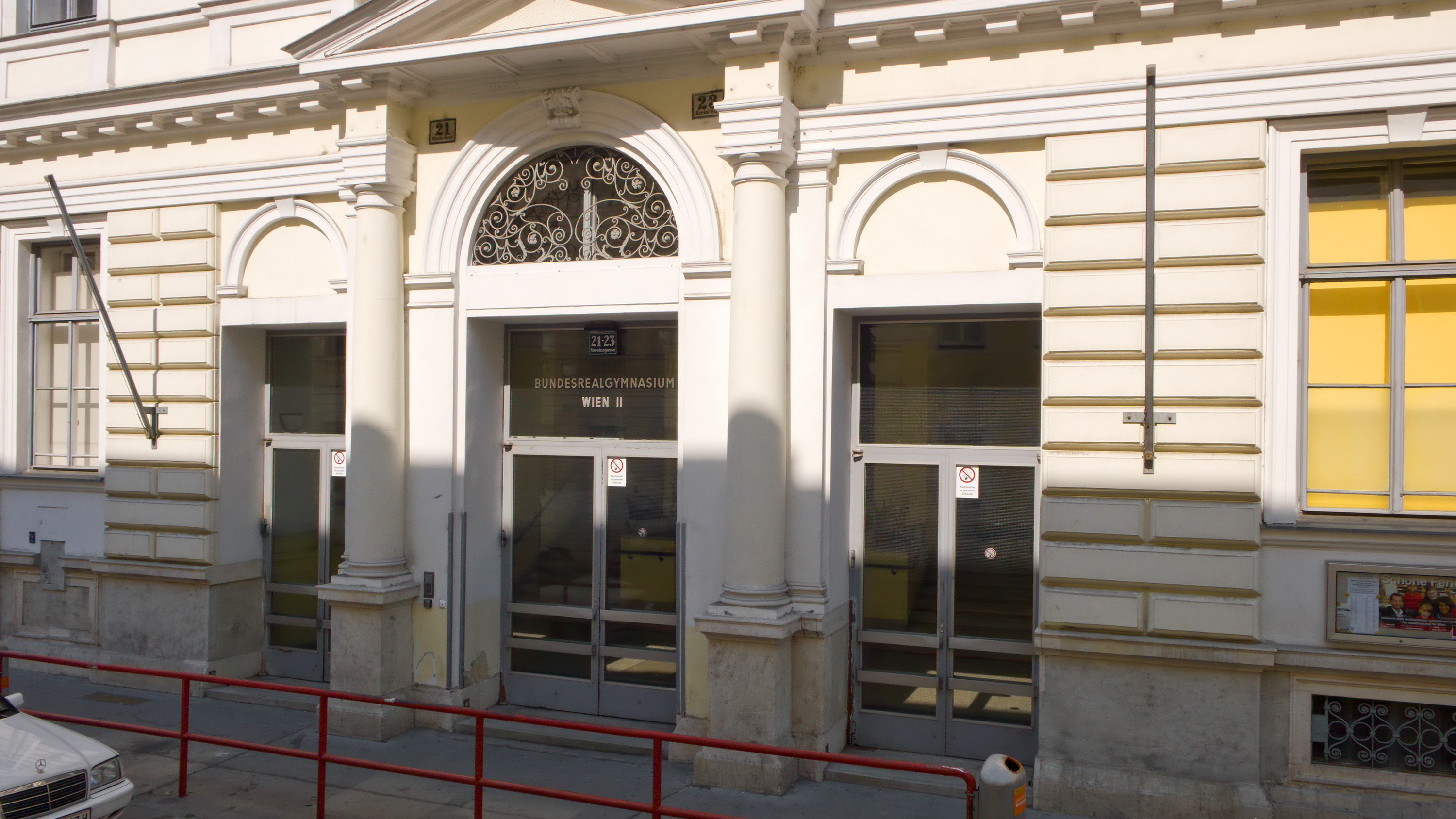 School Bundesrealgymnasium Vereinsgasse in Vienna Leopoldstadt